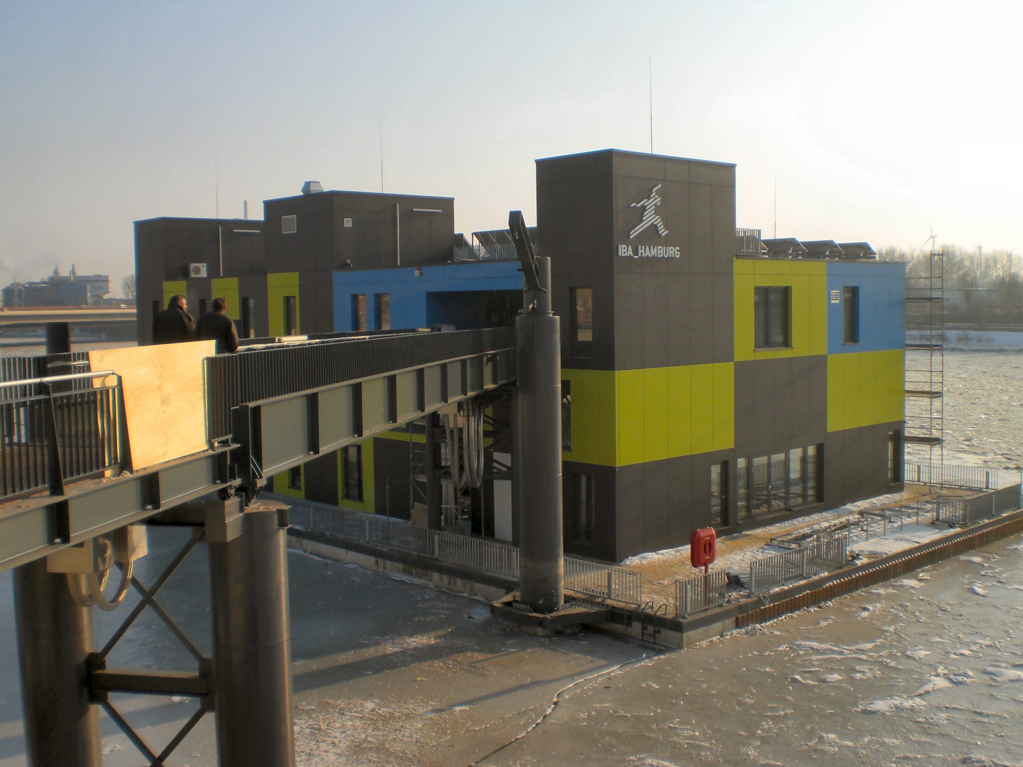 IBA-Dock in Hamburg, the Headquarter of the Internationale Bauausstellung (IBA) 2013